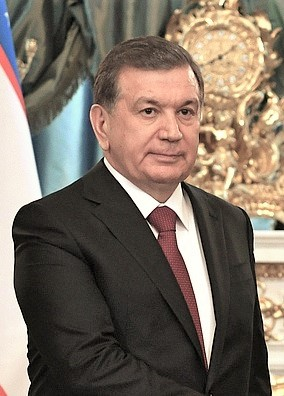 Uzbek President Shavkat Mirziyoyev, 5 April 2017